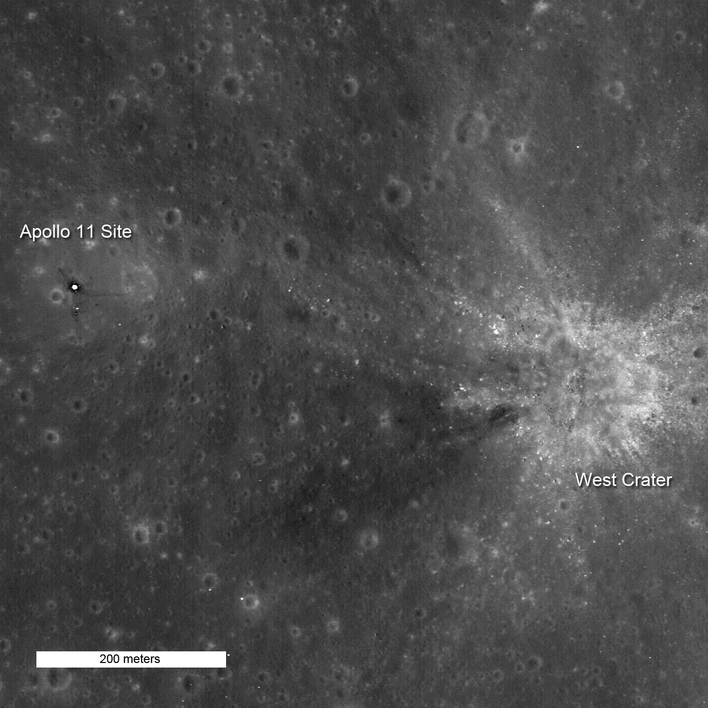 West Crater with boulders which Neil Armstrong had to overfly before the first manned lunar landing. LROC took this picture from orbit in autumn of 2009. The descent stage of the Eagle is to the upper left.